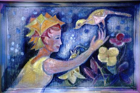 Game in the morning, oil painting on different materials, 87x57 cm, 1987 (WV-Nr.7066)